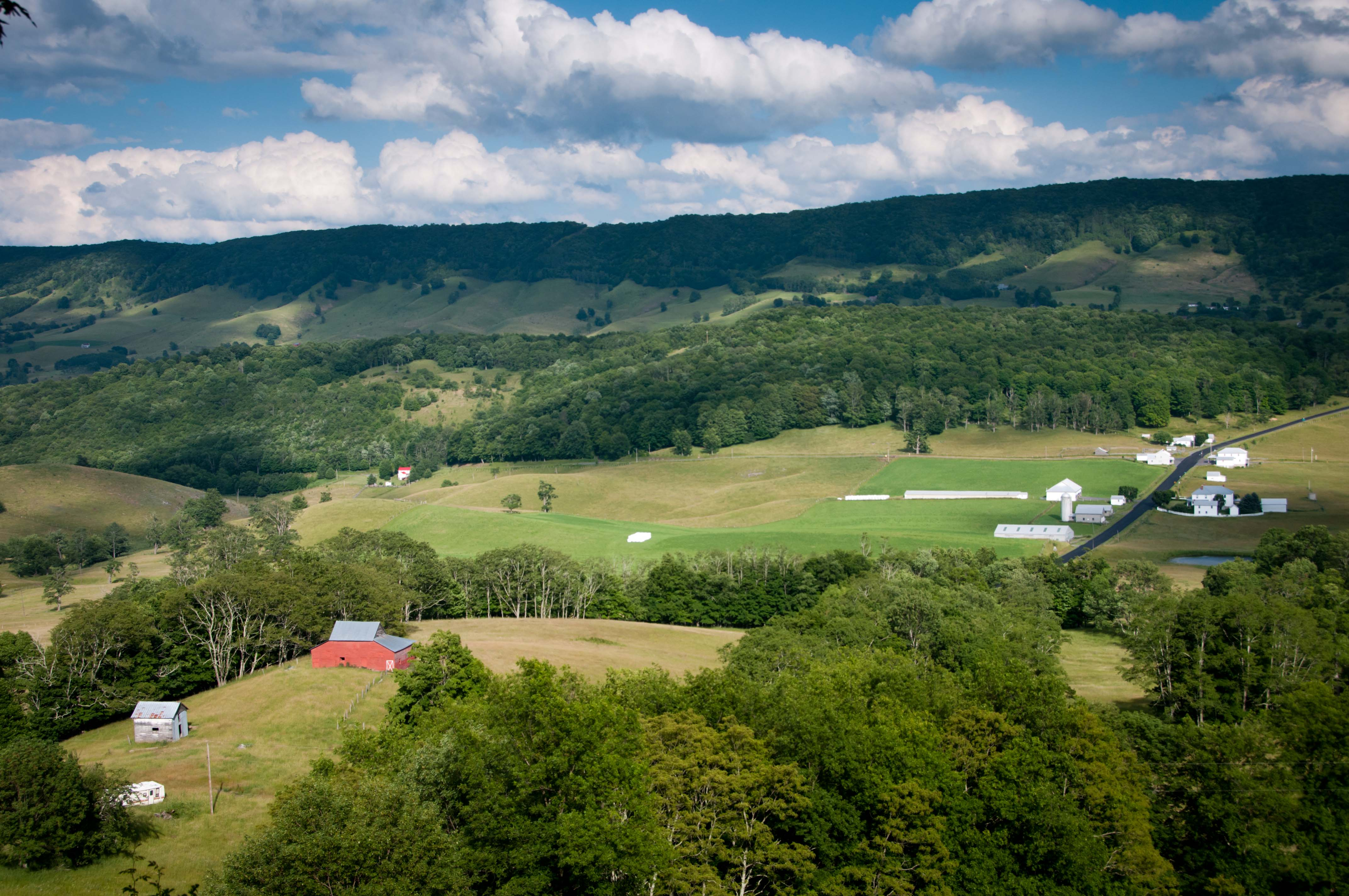 A view of the valley on U.S. Route 250 in Virginia as aproached from the west over the Alleghenies mountains.